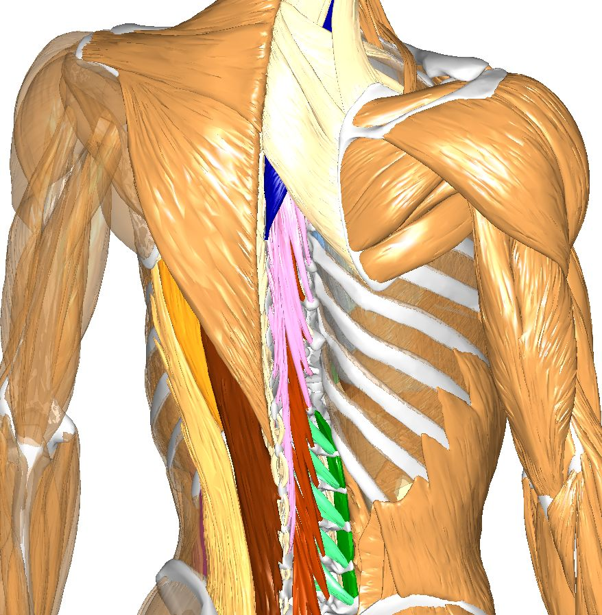 BodyParts3D ver.2.0 released at 2010-04-28. Muscules became available.